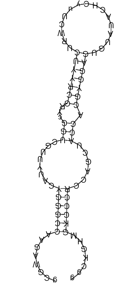 NA secondary structure of TB9Cs4H2 generated by the WAR server( It is the consensus structure from several Trypansomatid species -Leishmania major, Leishmania infantum, Leishmania braziliensis, Trypanosoma brucei, Trypanosoma brucei gambiense, Trypanosoma cruzi, Trypanosoma congolense, Trypansoma vivax --with some manual editing and redrawing of the structure with RNAplot from the Vienna RNA package